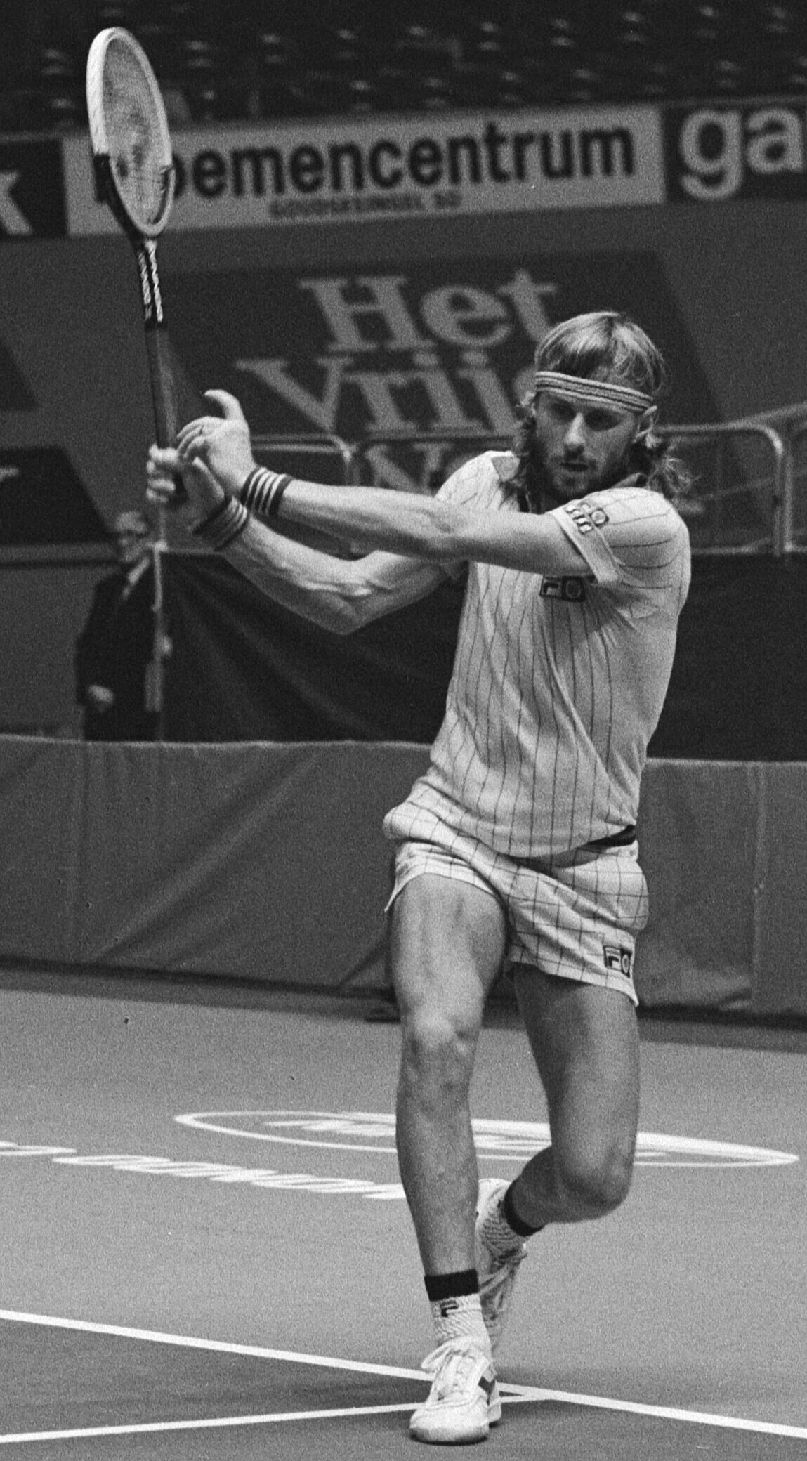 Swedish tennis player Bjorn Borg in the final of the 1979 ABN Tennis Tournament in Rotterdam.